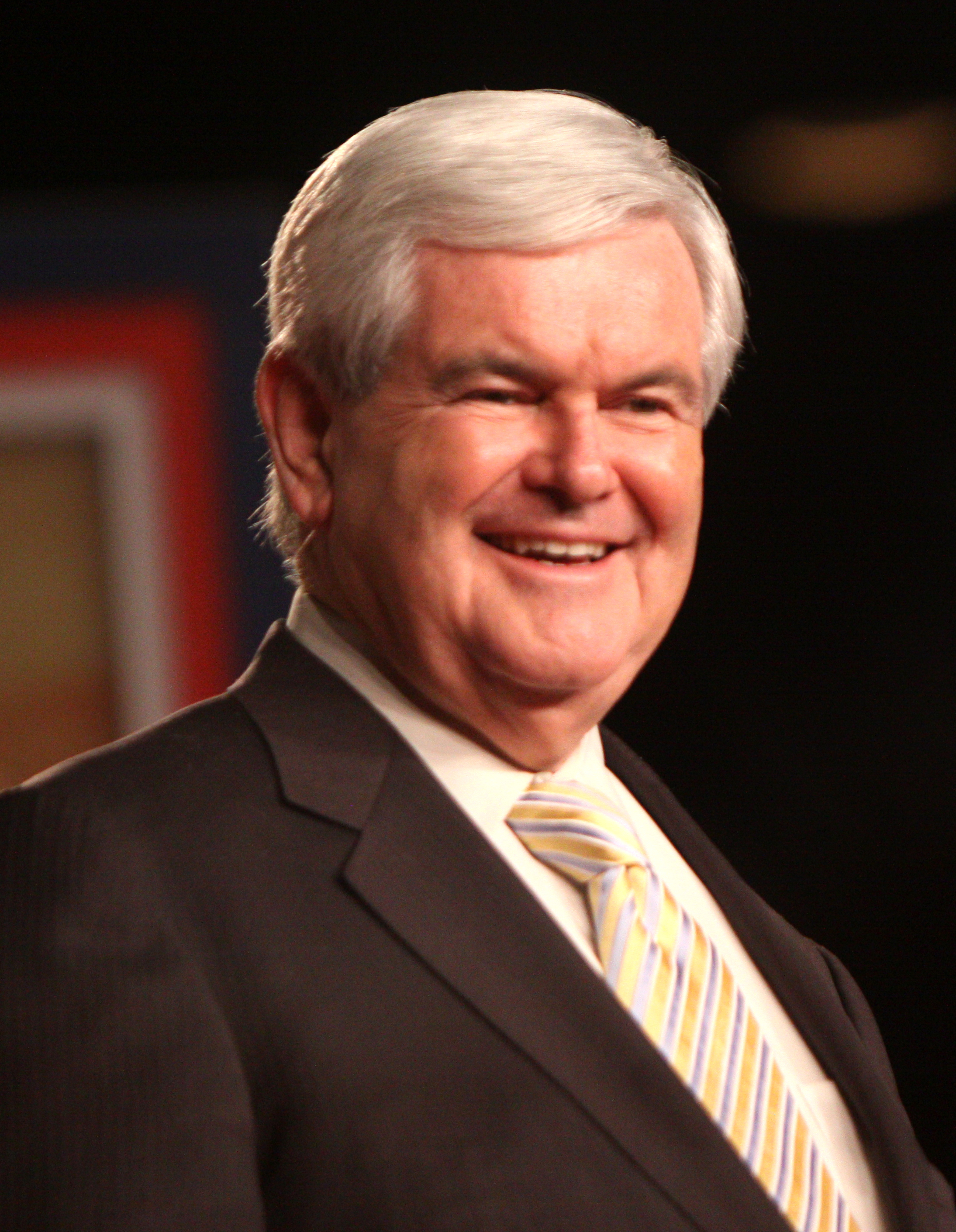 Newt Gingrich at a political conference in Orlando, Florida.